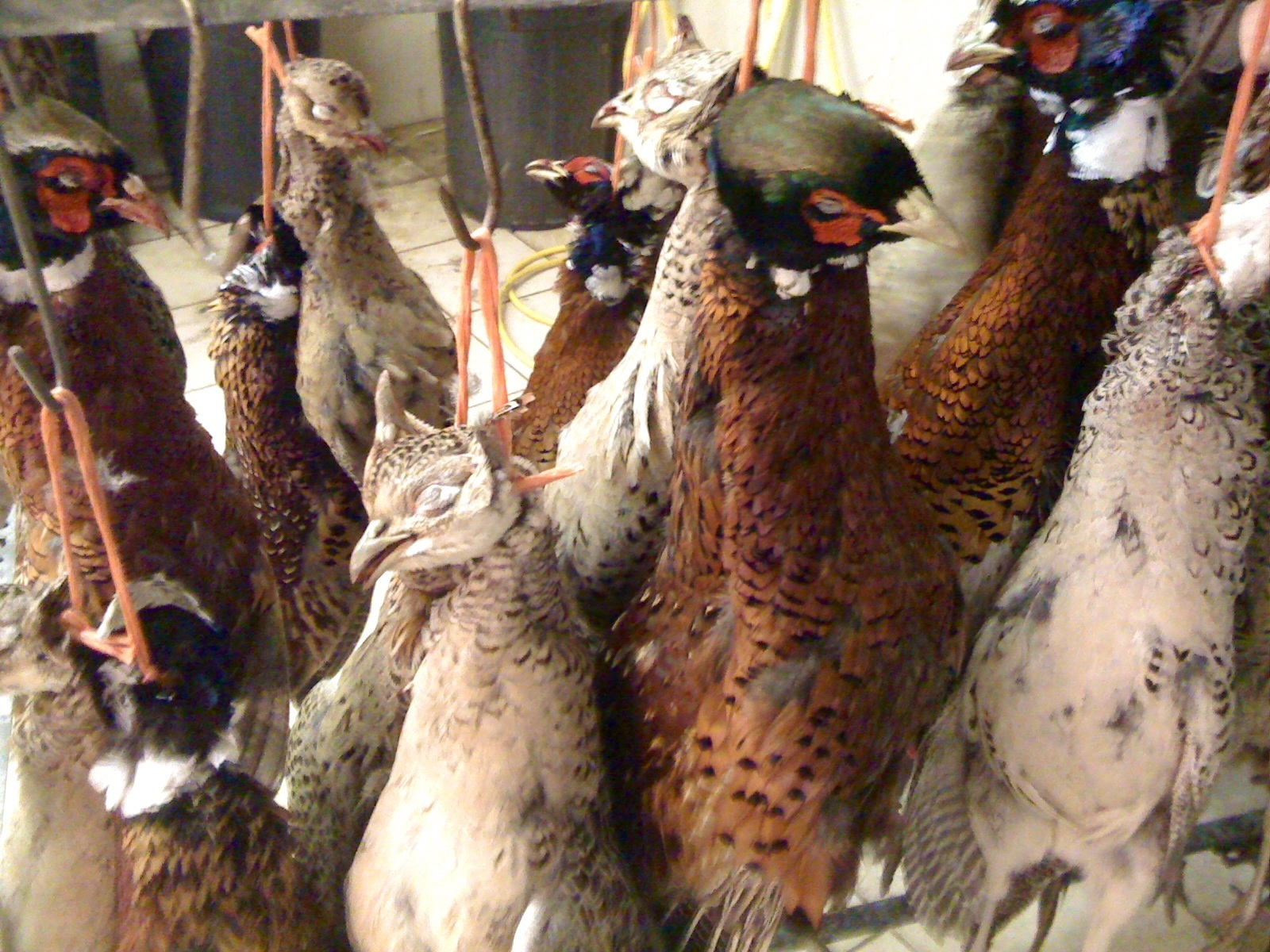 Just hanging about!